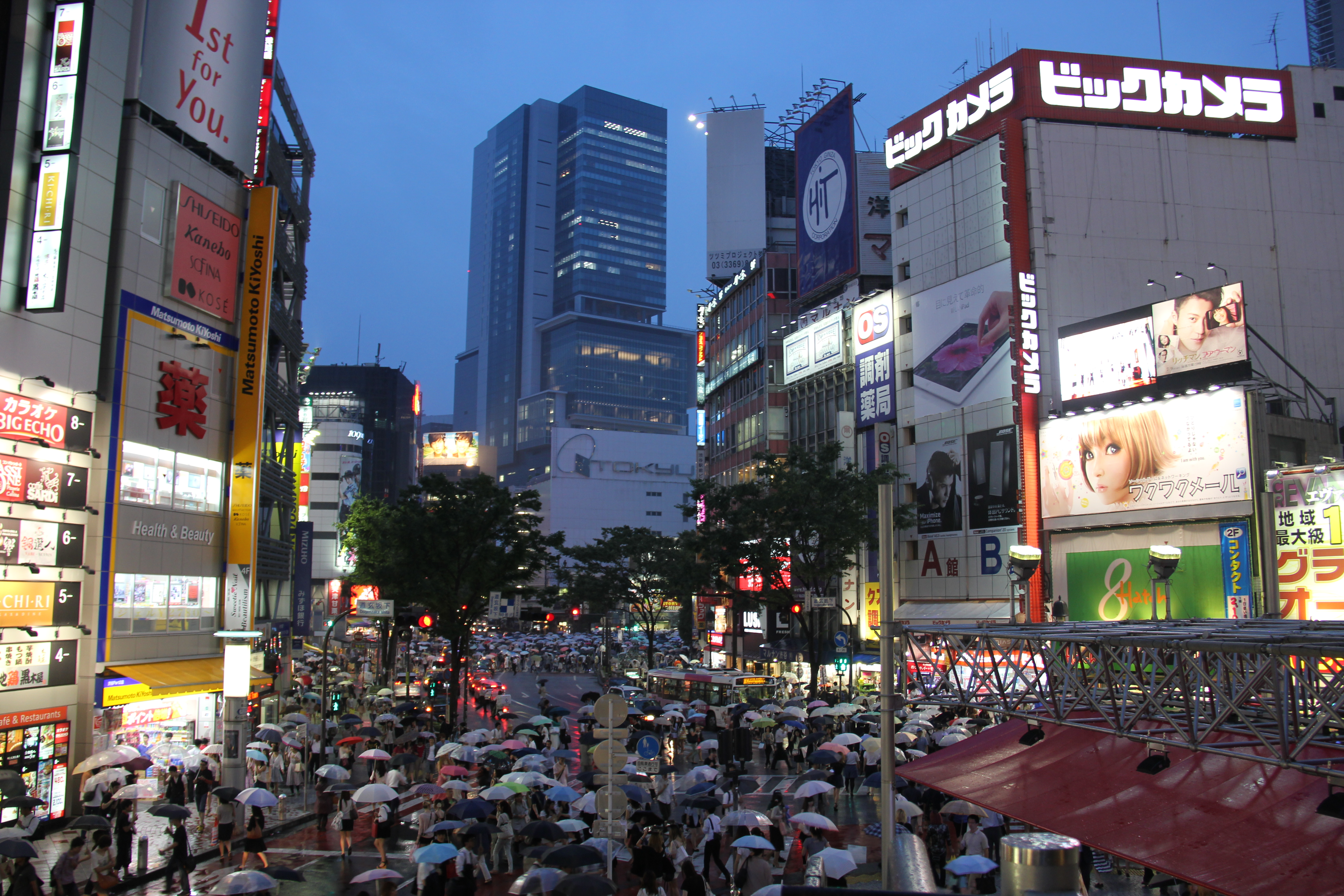 Shibuya in the Rain